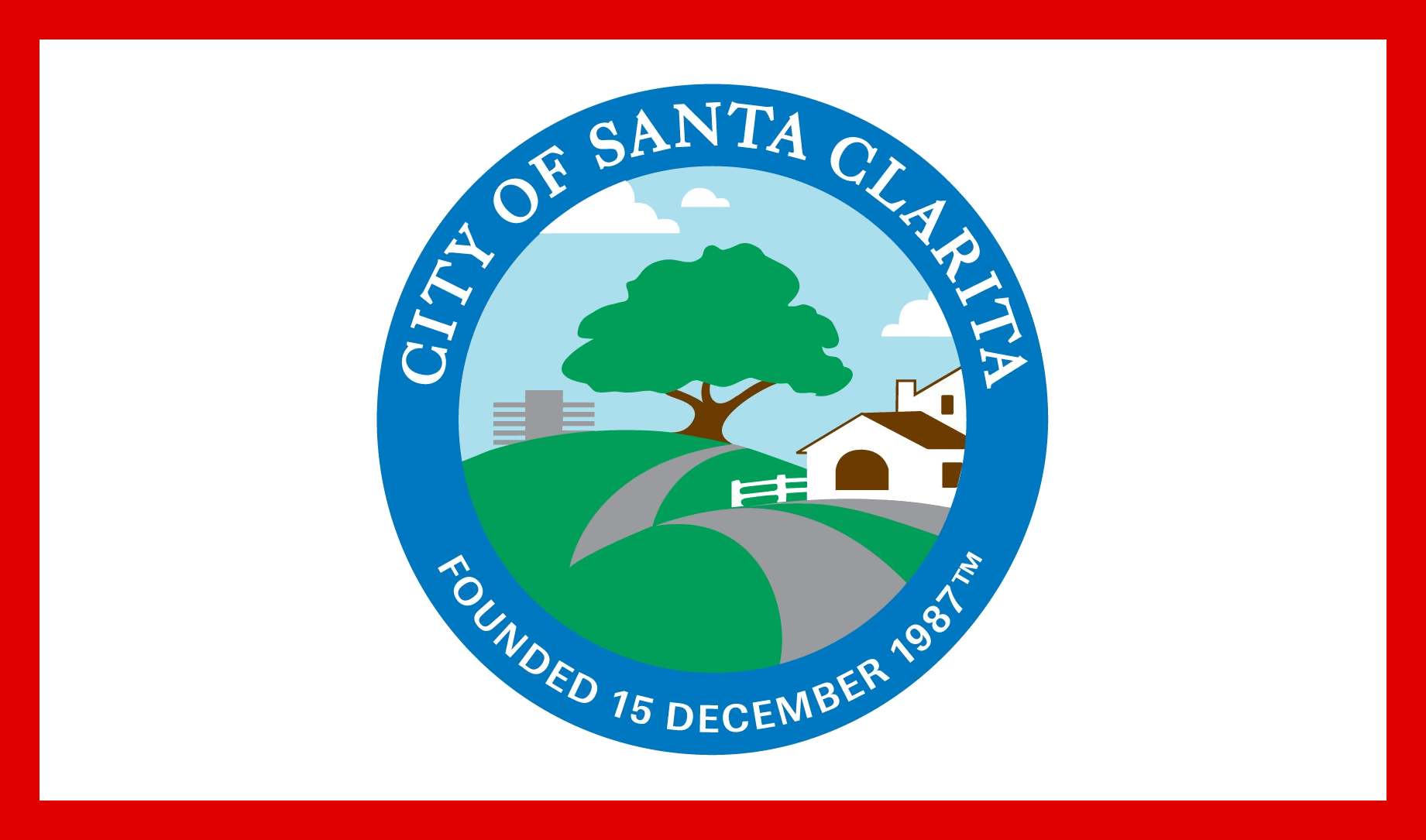 The official city flag of the City of Santa Clarita — in Los Angeles County, California. It consists of the city seal emblazoned on a white field, bordered by a red outline.